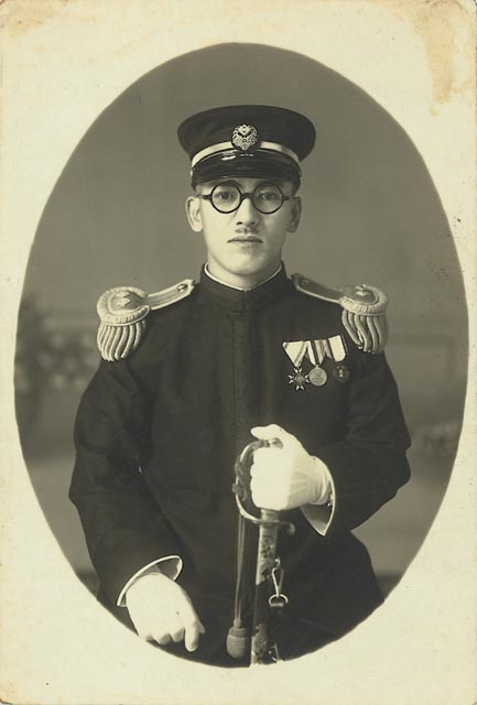 橫山竹男, an officer in the Japanese-ruled Taiwan notice that the romanization of the name is just a "reverse-transliteration" from Kanji, it may have alternative readings source: [1]